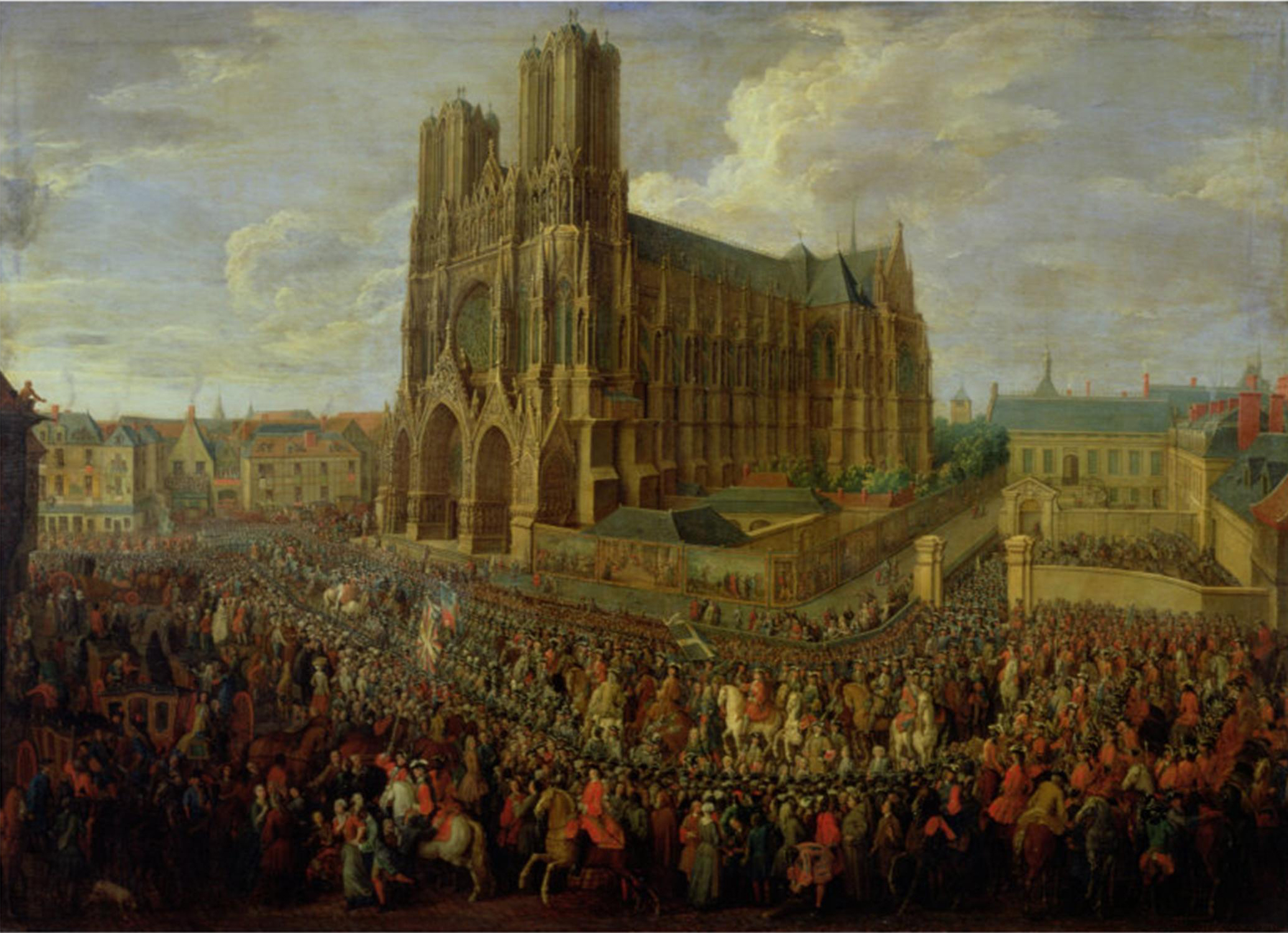 Procession of Louis XV of France after his coronation.